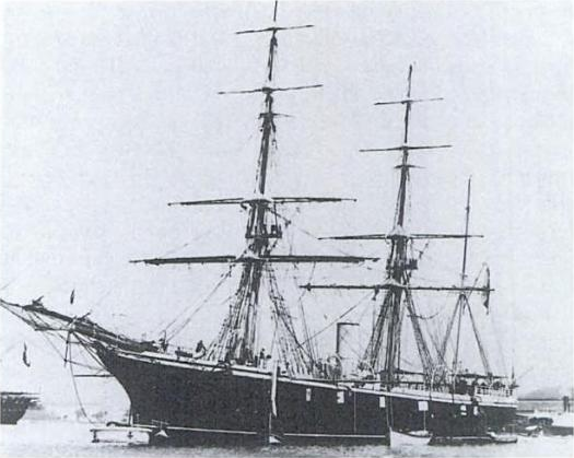 The Chilean screw corvette Abtao.